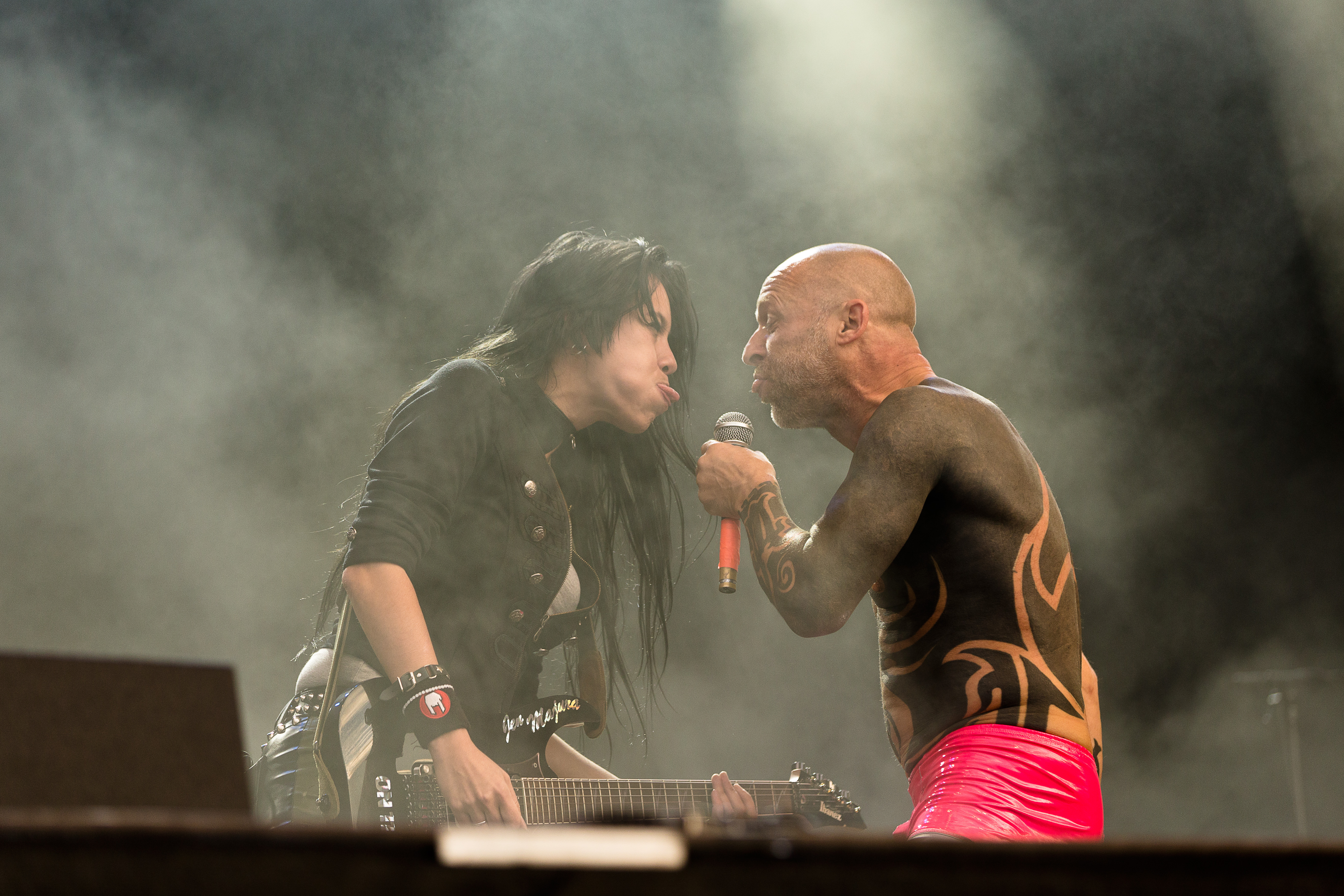 The German rock band Knorkator at the Rockharz Open Air 2016 in Ballenstedt/Germany.